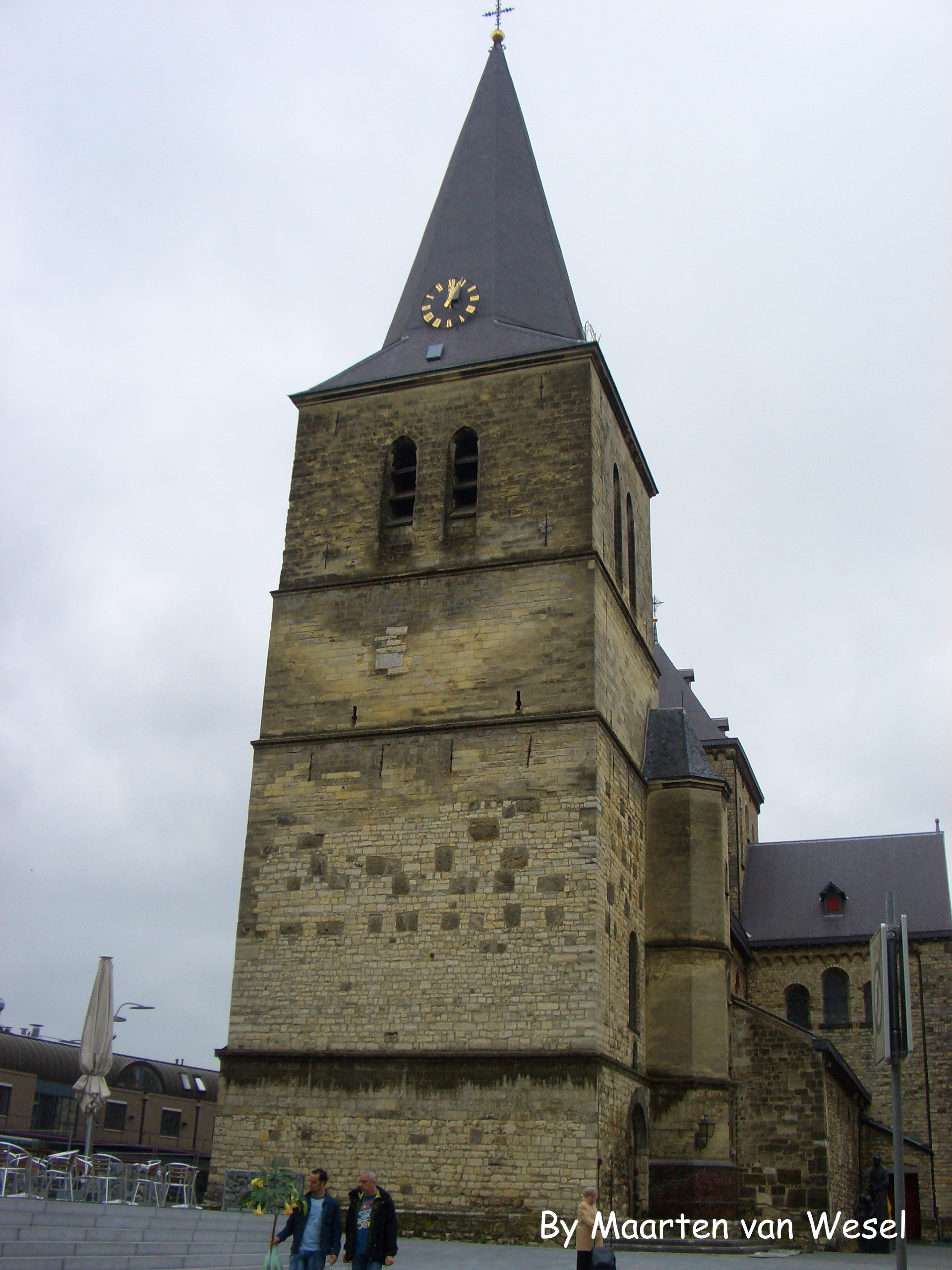 This picture of the Pancratiuskerk was taken by me, Maarten van Wesel, in Heerlen